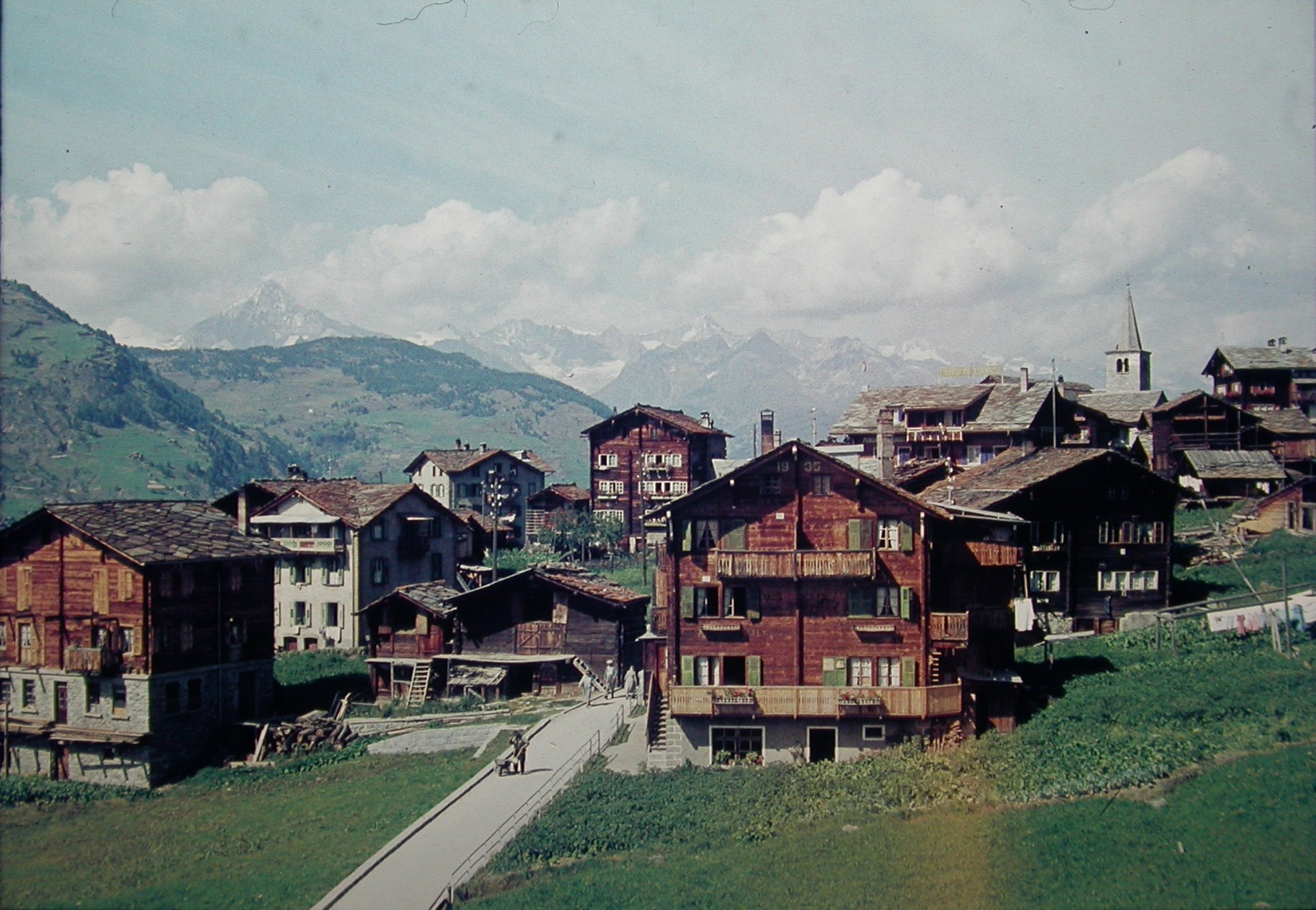 July 1959 at Grächen